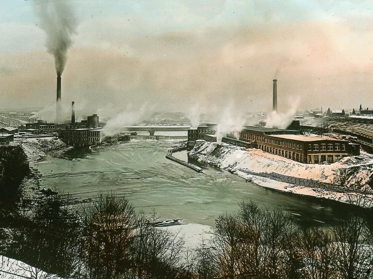 Photograph, glass lantern slide, Brompton Pulp & Paper Company plant, QC, about 1930, Anonymous, Silver salts and transparent ink on glass - Gelatin dry plate process - 8 x 10 cm